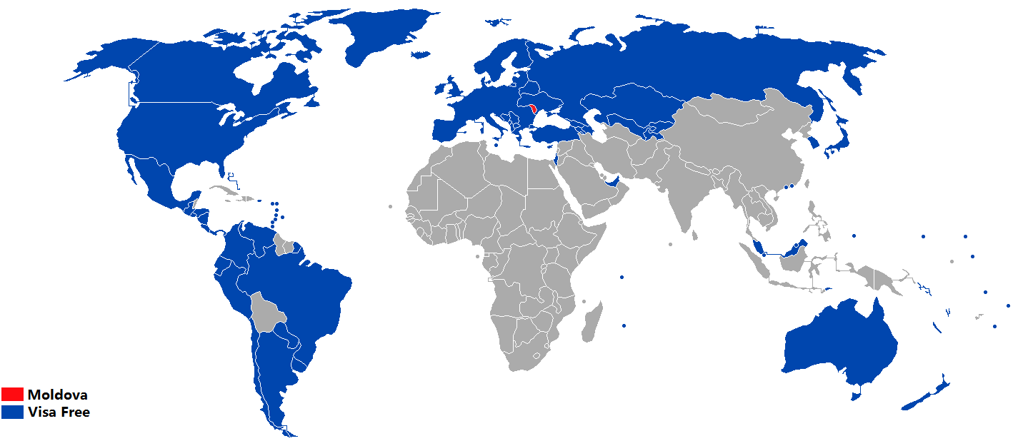 Visa policy of Moldova Moldova Visa-free access Invitation letter from Moldovan sponsor required